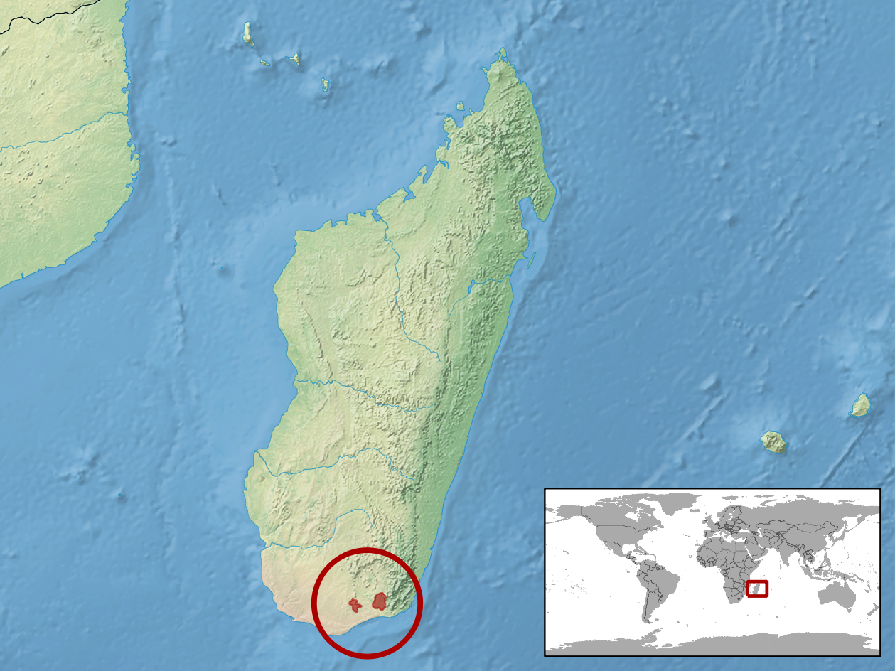 geographic distribution of Lygodactylus decaryi (Native: Madagascar)